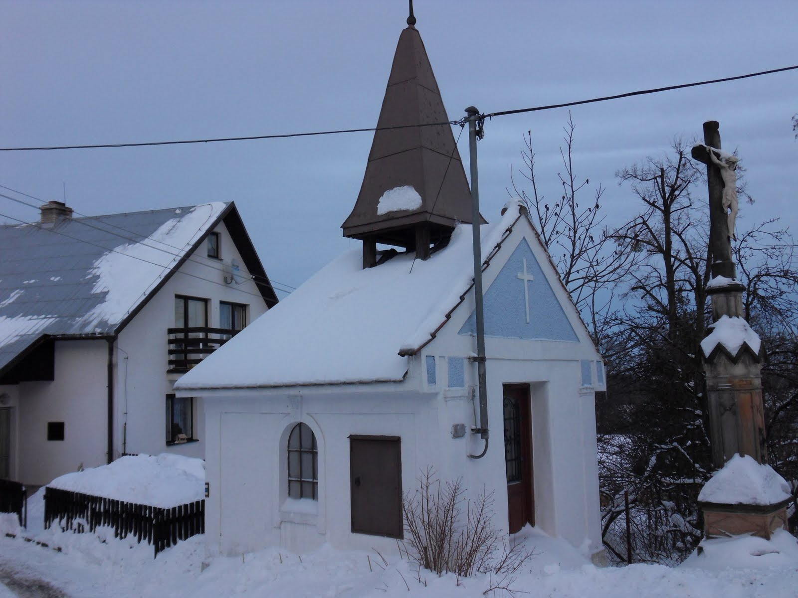 bell tower, the small church